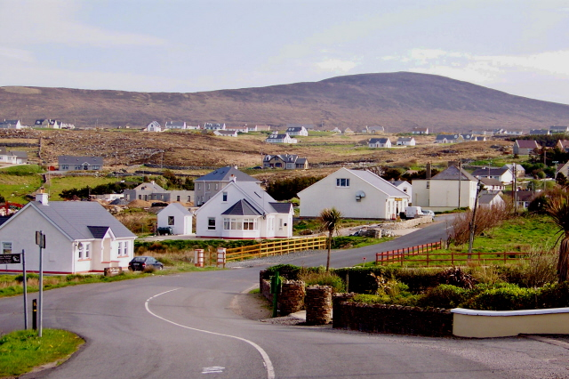 Glassagh - R257 north of Teac Jack's Hotel The road to the left will take you past a small pond into a residential area and then to a small beach along Gweedore Bay via a narrow, sandy & grassy road. Going straight will take you northward to Brinlack amnd eventually Gortaho9rk where R257 meets N56.